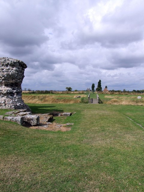 Watling Street:, Richborough, Sandwich, Kent